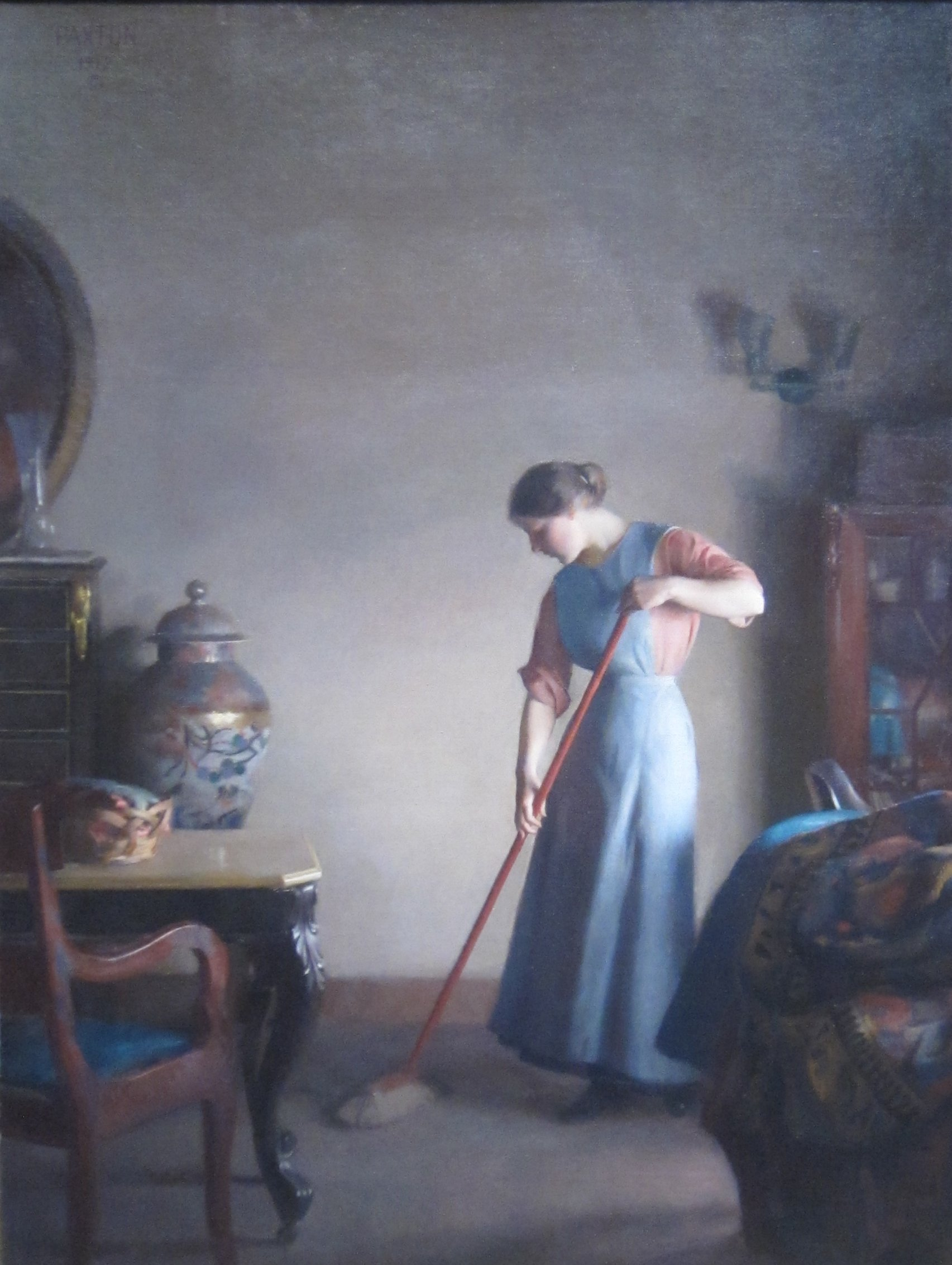 Girl Sweeping, oil on canvas painting by William McGregor Paxton, 1912, Pennsylvania Academy of the Fine Arts